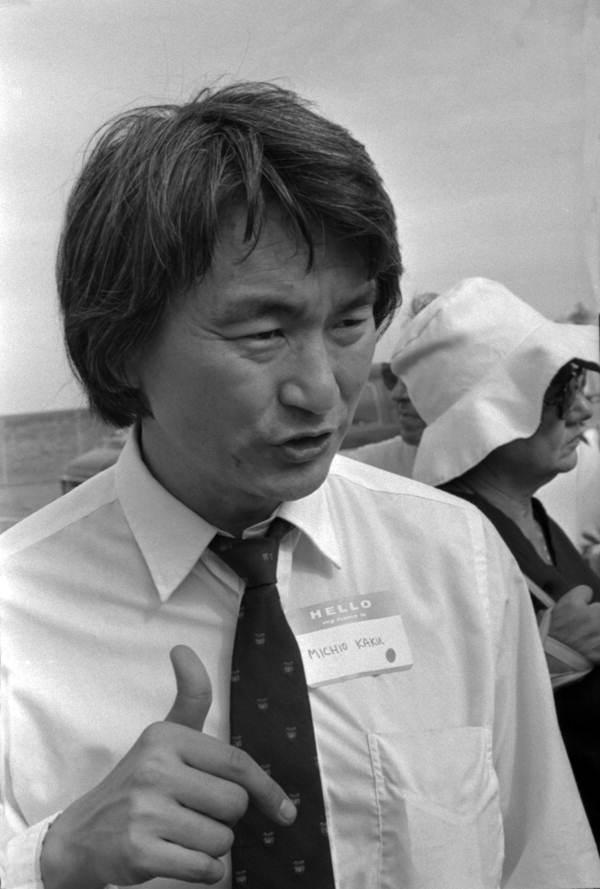 Michio Kaku, protestor at the demonstration - Cape Canaveral, Florida.